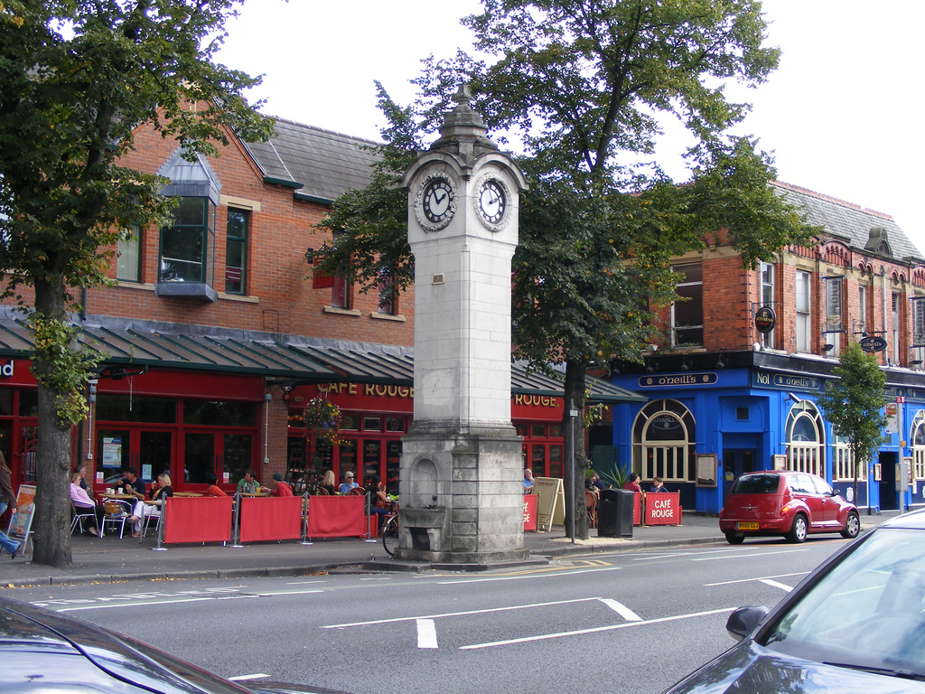 Photo of the Clock Tower in Didsbury Village, Manchester, prior to the 2009 renovation.